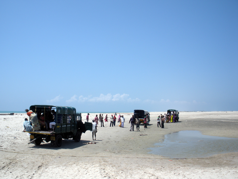 Mini trucks transport people to the Lands End, Dhanushkodi.